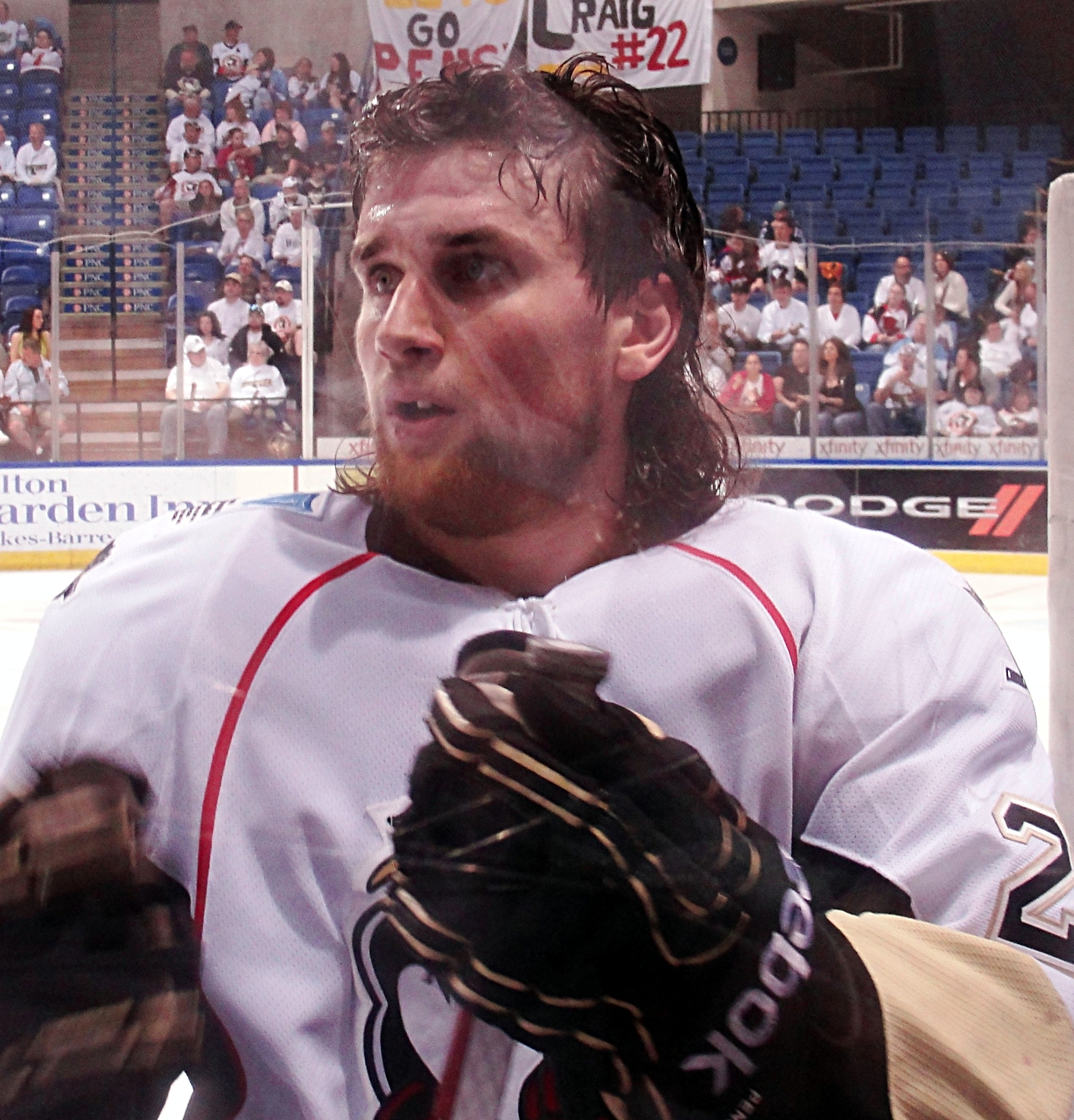 Wilkes-Barre/Scranton Penguins left winger Brandon DeFazio during a AHL Calder Cup Playoffs second round game against the St. John's IceCaps, May 5, 2012 at Mohegan Sun Arena at Casey Plaze in Wilkes-Barre, PA.